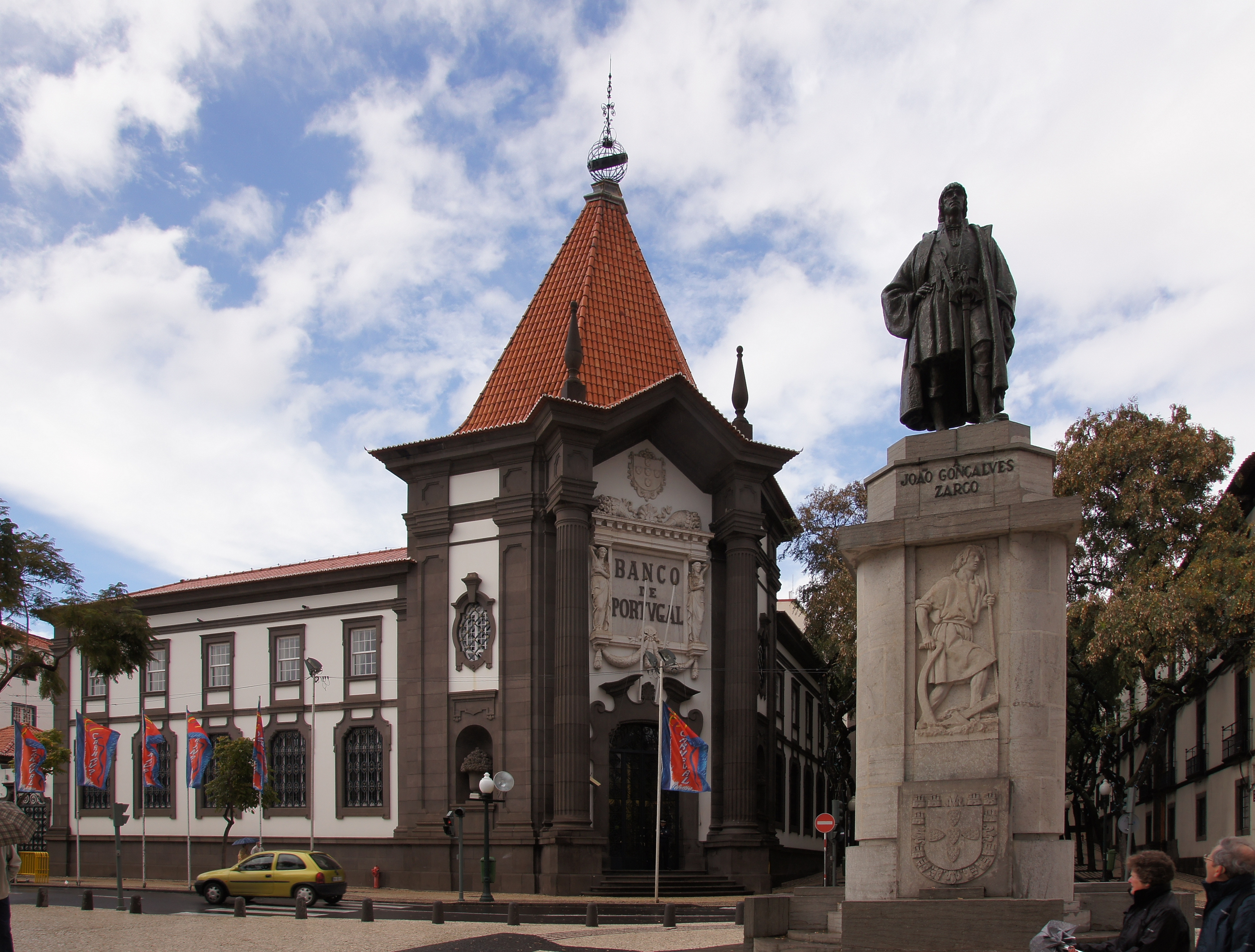 Banco de Portugal building and Zarco's statue in Funchal